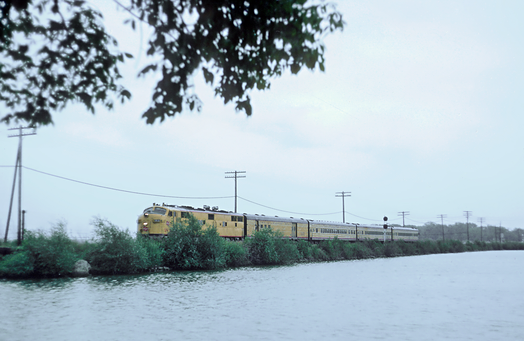 MILW 18A (E7A) with Train 17, The Varsity, crossing Lake Monona, Madson, Wisc. on August 6, 1967.